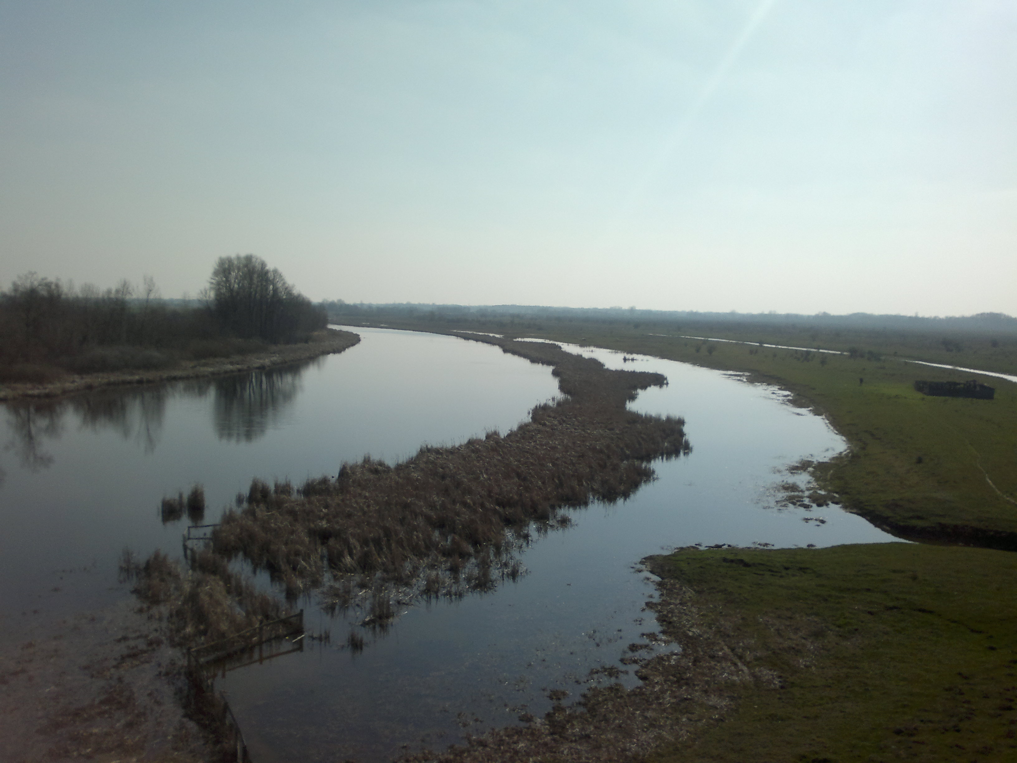 view from the wooden tower